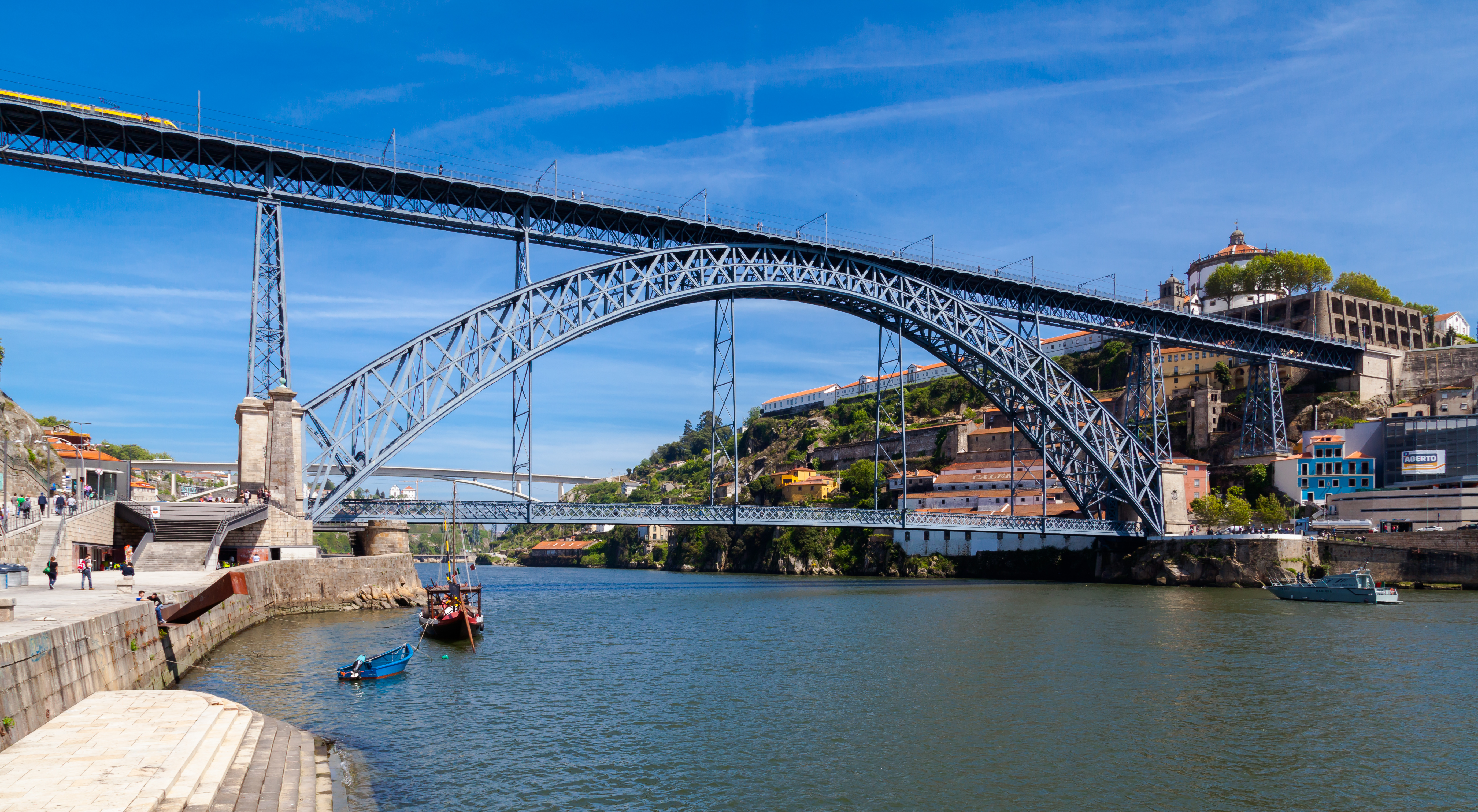 Dom Luis I bridge, Porto, Portugal